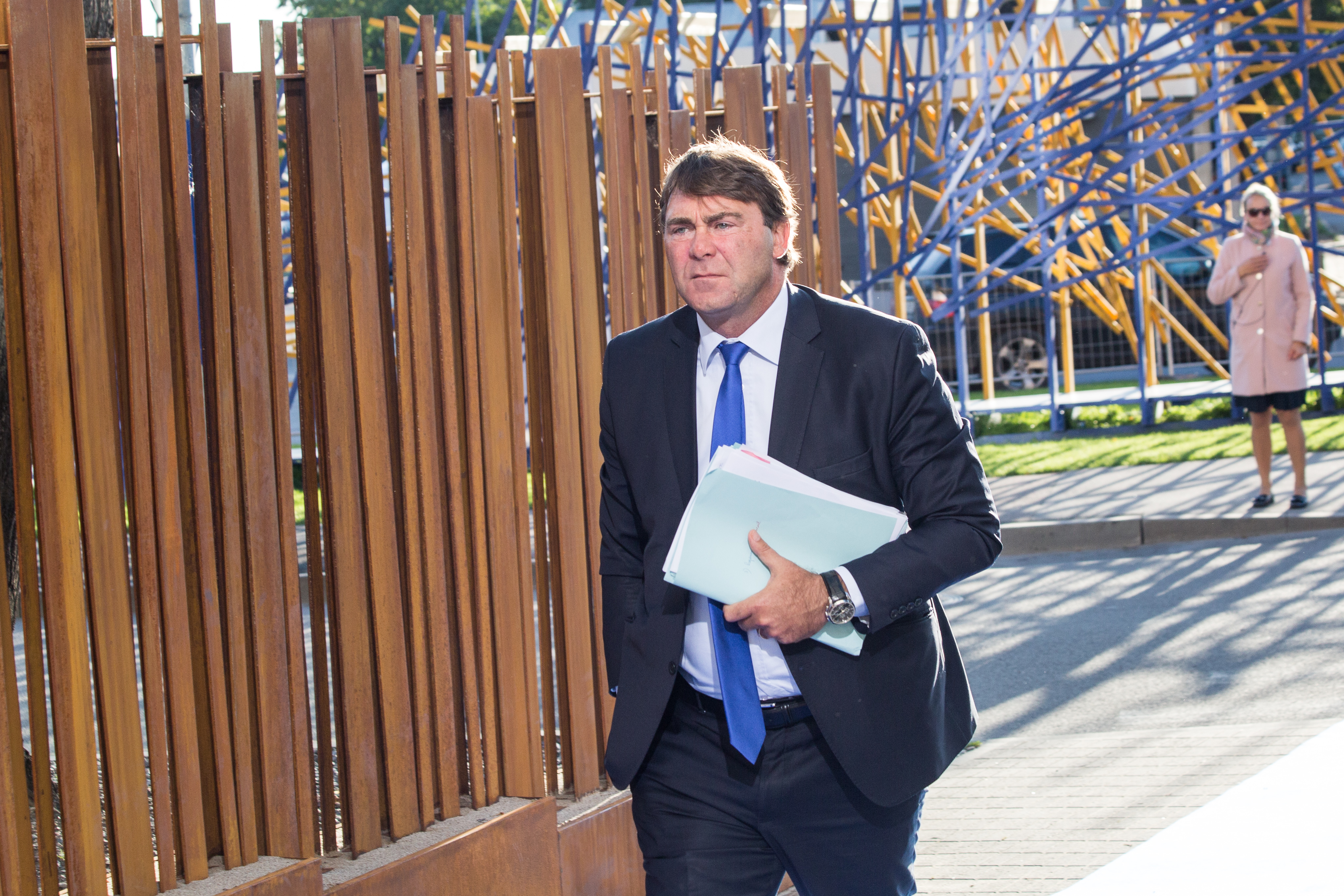 Denis Ducarme, Minister, Ministry of Small Businesses, Self-Employment, Small and Medium-sized Enterprises, Agriculture and Social Integration, Belgium Photo: Aron Urb (EU2017EE)